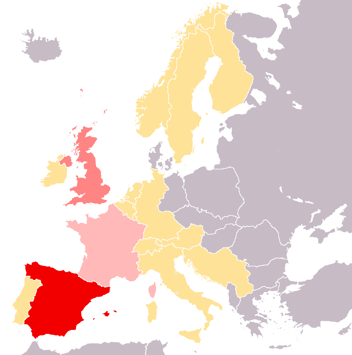 Map of Eurovision 1968